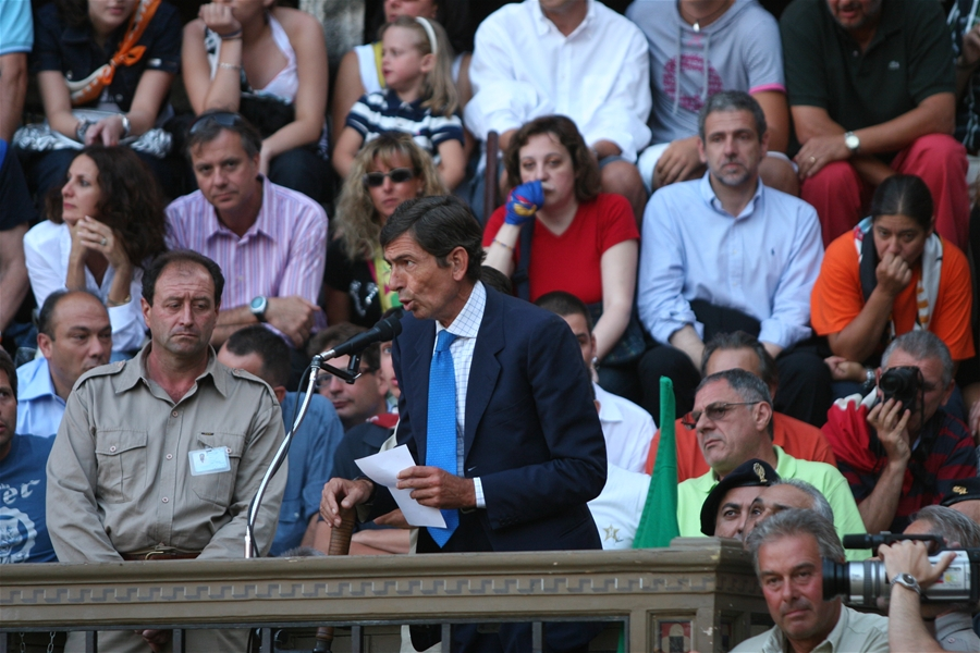 The Mossiere calling the Contrade to align